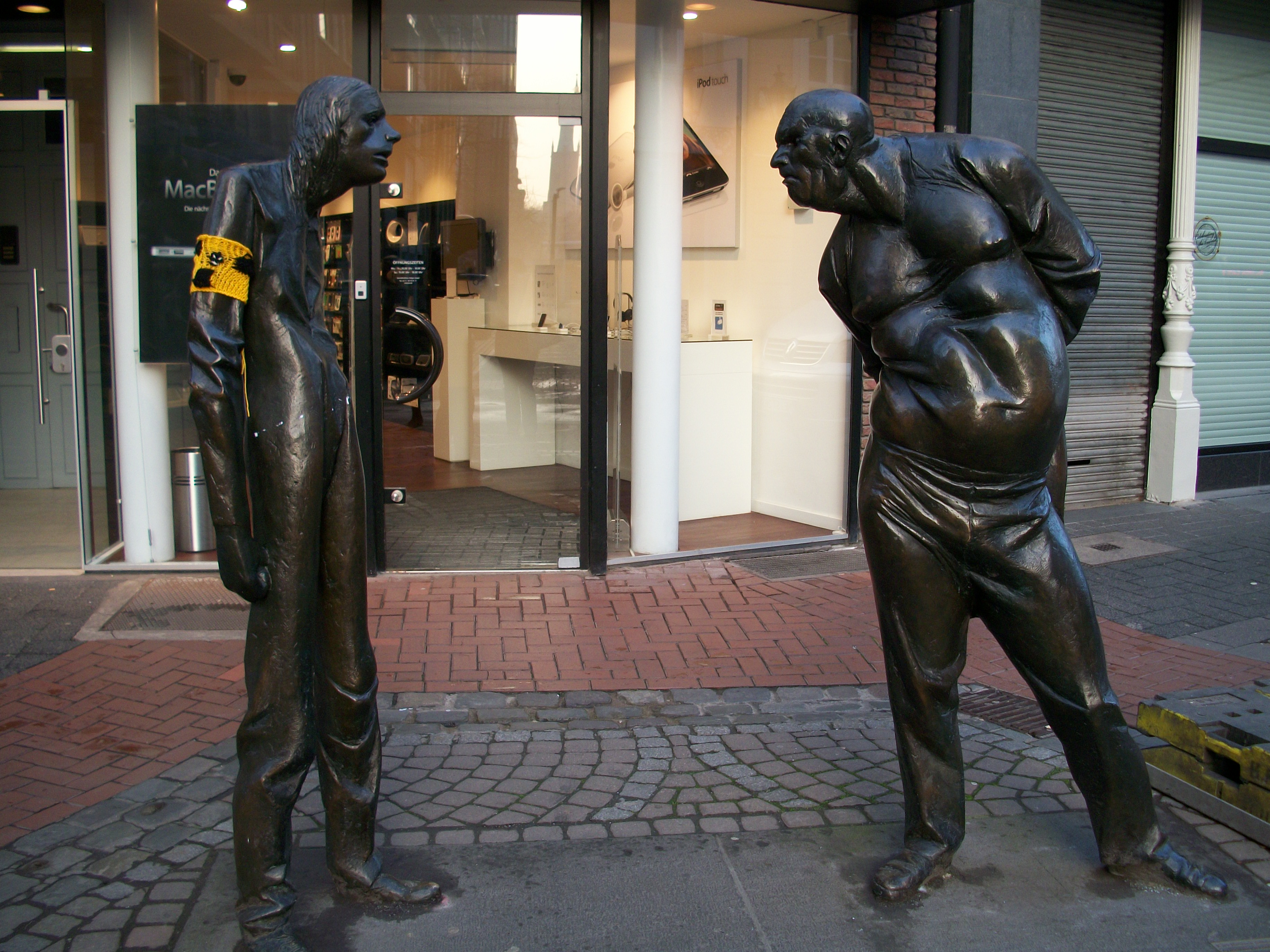 'Fluffy on tour' Open for all - knitting guerilla